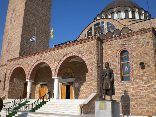 Photo of Church entrance, Didymoteicho, Evros with a stature of Constantine XI Palaiologos in the foreground